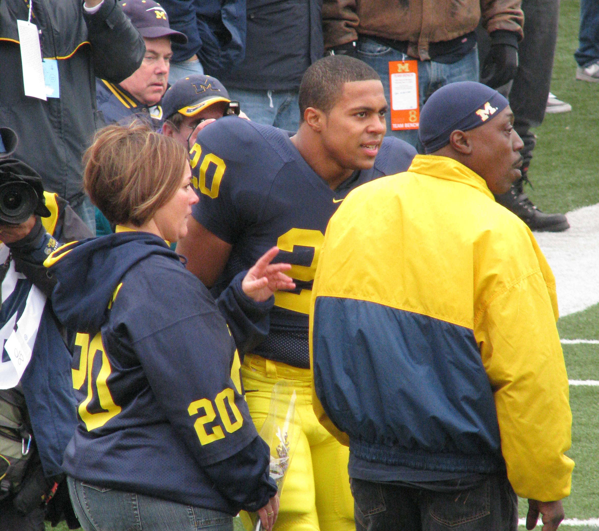 Mike Hart (American football) and family on Senior Day